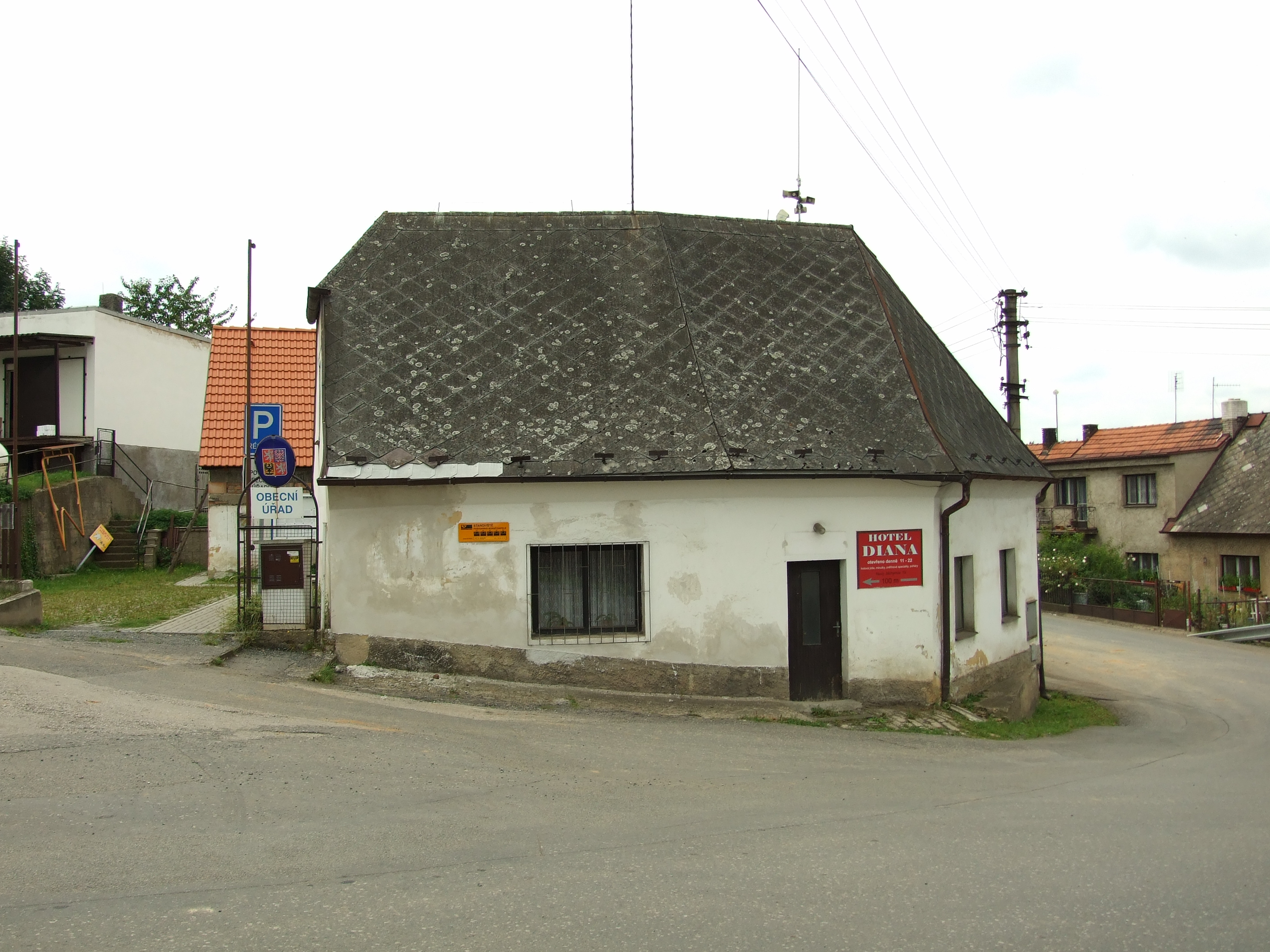 Village Nový Jáchymov in Central Bohemian Region, CZhelp This photograph was taken within the scope of the 'Czech Municipalities Photographs' grant.